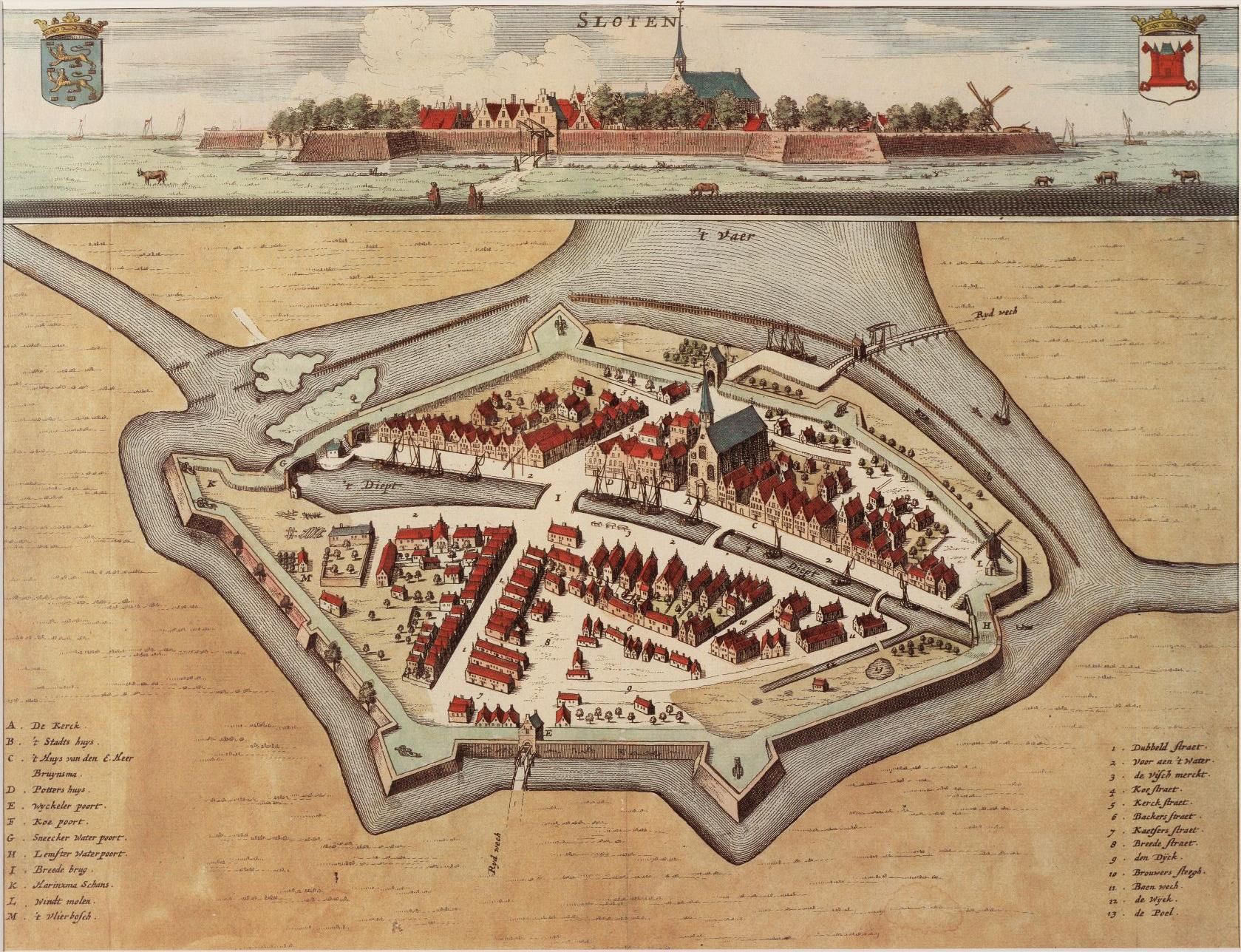 Elf reproducties van Friese stadsplattegronden uit de Beschrijving van Heerlijkheydt van Friesland door Bernardus Schotanus a Sterringa uitgegeven in 1664 Sloten